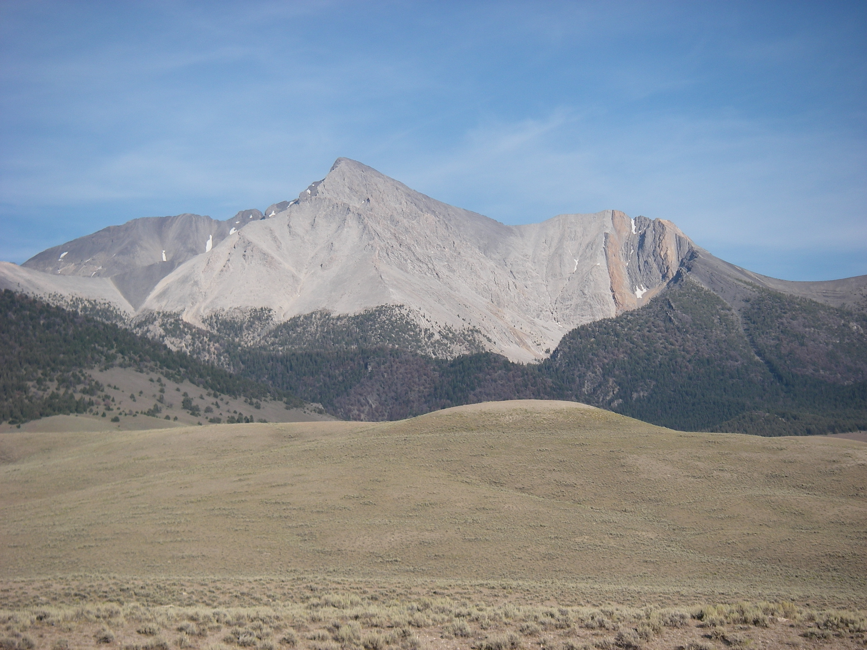 Mount Borah the tallest peak in the state of Idaho.